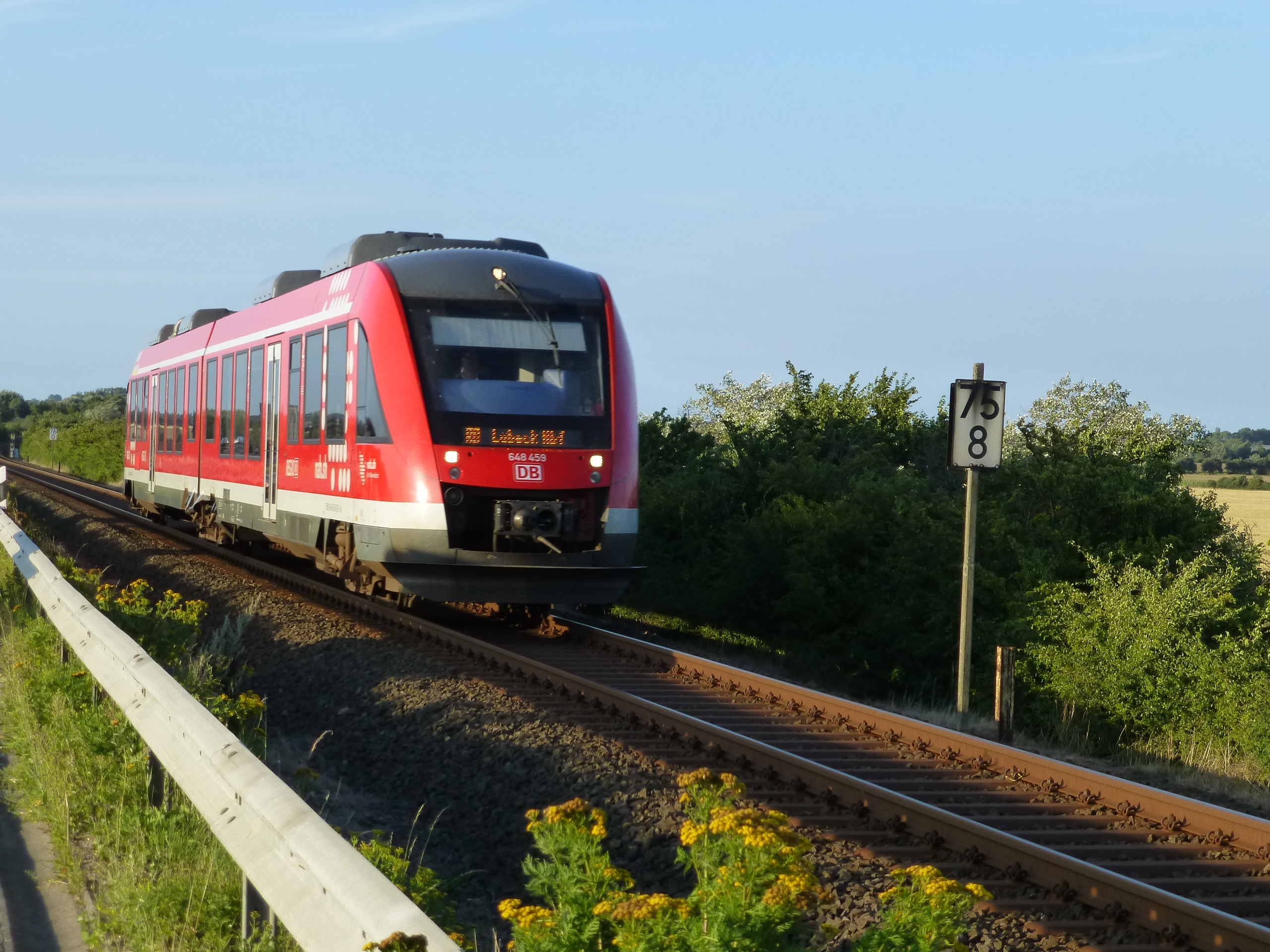 Fehmarn Sound Bridge and its vicinity. Pictures are taken while traveling from the north to the south